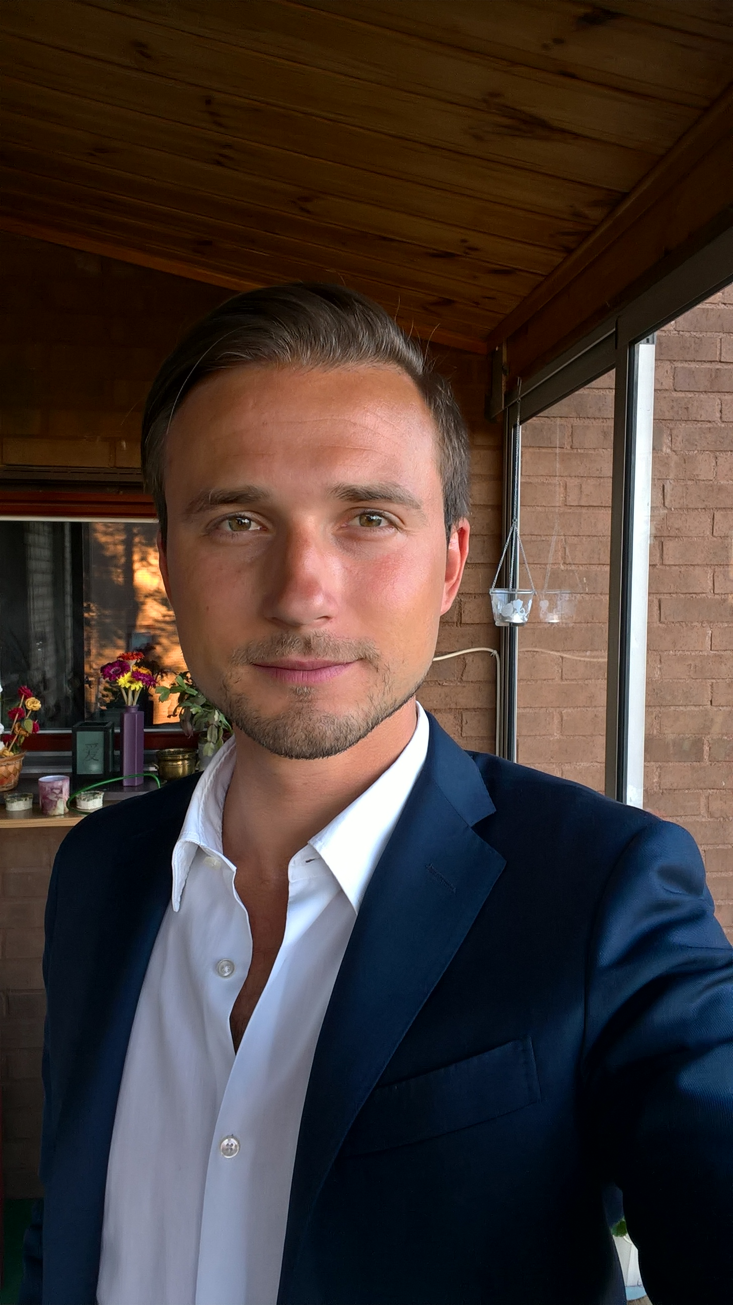 Filip Benko